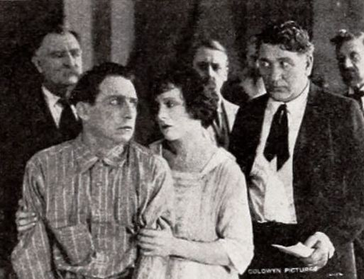 Still from the American western film His Back Against the Wall (1922) with Raymond Hatton, on page 62 of the March 4, 1922 Exhibitors Herald.